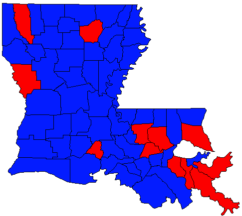 November 15, 2003 Louisiana Gubernatorial Runoff Election results by parish. [1] Blue – Parishes in which candidate Kathleen Blanco obtained a of majority of the votes cast. Red – Parishes in which candidate Bobby Jindal obtained a majority of the votes cast.